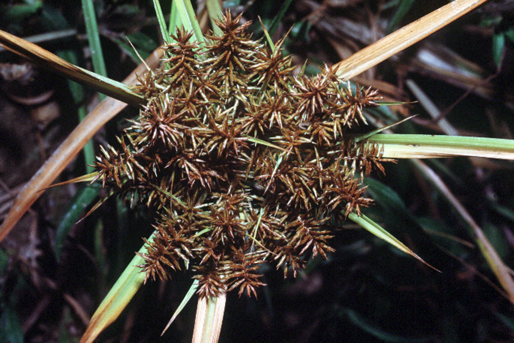 Cyperus erythrorhizos Muhl. - redroot flatsedge